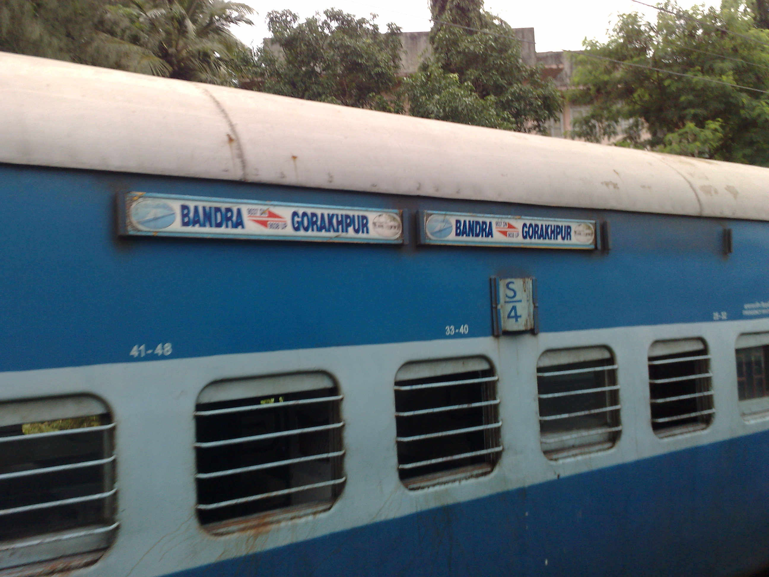 19037 Avadh Express